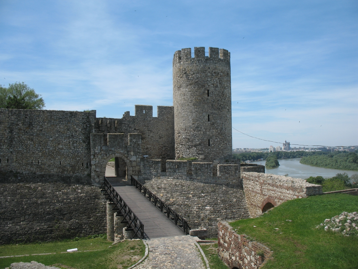 Despots Tower with gate in Belgrade fortress, Serbia.